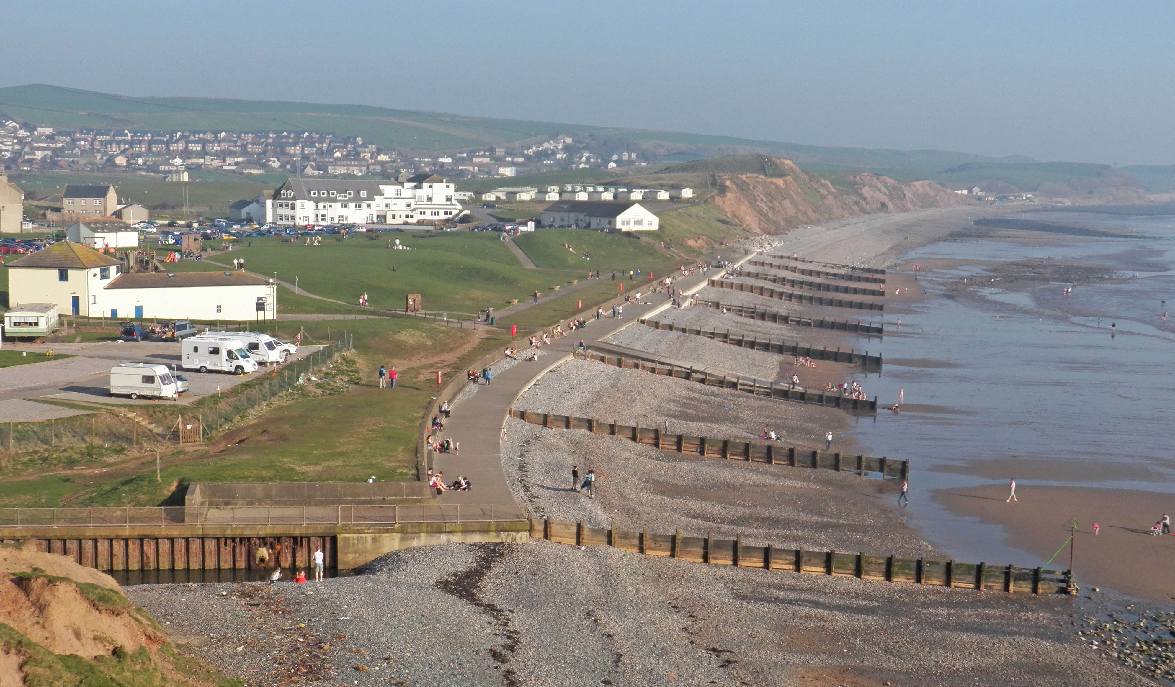 The promenade and Seacote beach, St Bees